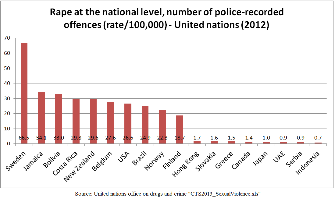 Rape rate per 100,000 population, comparison by country (selected top and bottom countries).